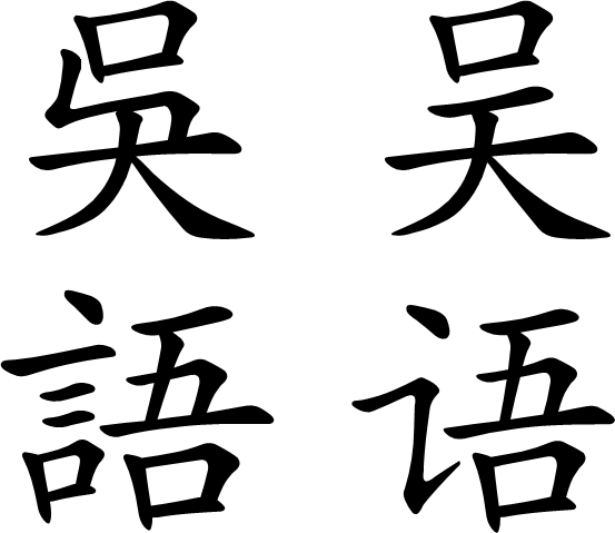 The Chinese characters "吳語/吴语" meaning Yue, made using the 汉鼎简中楷/汉鼎繁中楷 truetype font